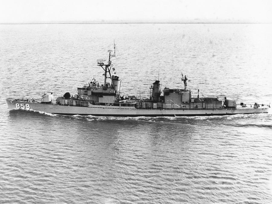 The U.S. Navy destroyer USS Norris (DD-859) underway on 2 May 1966. Norris shows the typical appearance of a FRAM II-modernized Gearing-class destroyer: Hedgehog in front of the brigde, AN/SPS-6 radar, Mk 32 triple torpedo tubes amidships and DASH hangar and landing deck aft. Note that it appears that a single Mk 25 torpedo tube is still installed in front of the Mk 32 launcher. Originally, the FRAM II-ships had four Mk 25 tubes that were later replaced by the Mk 32 launchers.